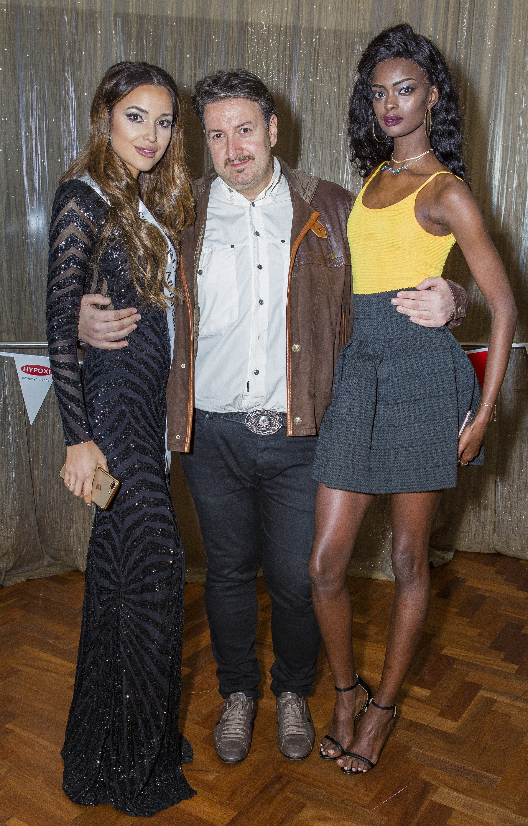 Amy Lee Dixon, Maurice Novoa Ruiz and Adau Mornyang at the Variety Australia children's charity fundraiser